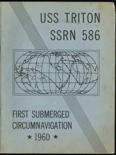 USS Triton (SSRN-586). First Submerged Circumnavigation *1960* (Washington, D.C.: U.S. Government Printing Office)